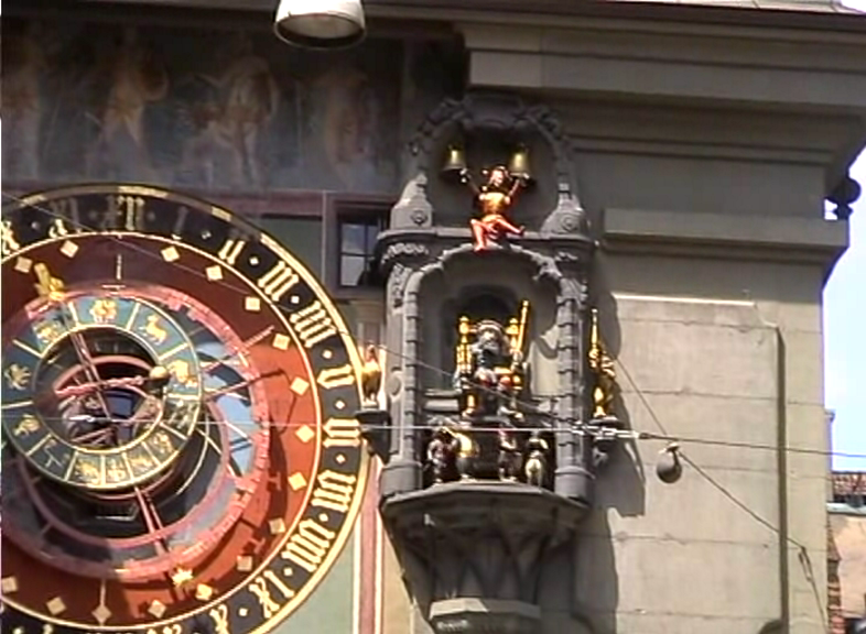 The carillon of the Astronomical clock on the Zytglogge tower in the City Bern/Switzerland